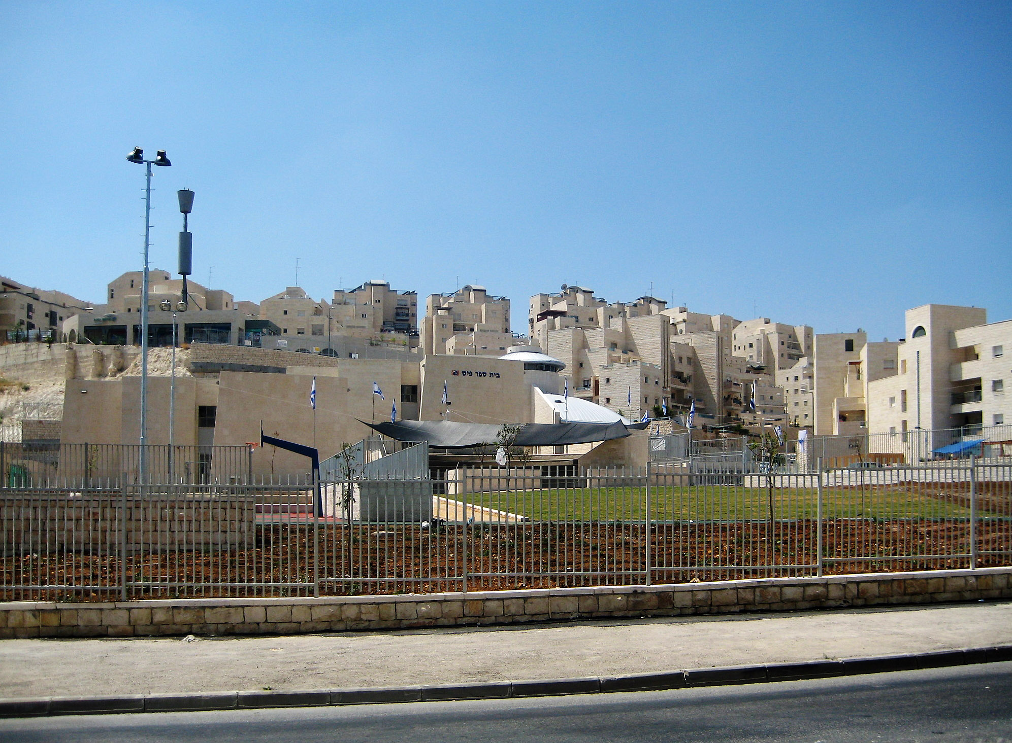 Har Homa neighbourhood, Jerusalem